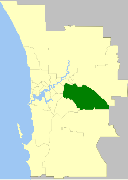 Location of the Local Government Area Shire of Kalamunda in Perth, Western Australia